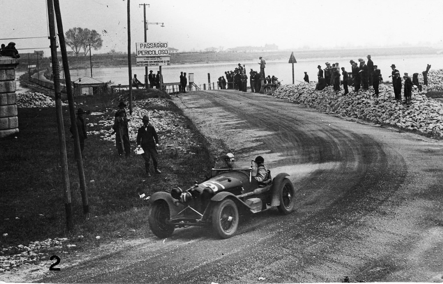 Franco Cortese and owner Carlo Castelbarco at Mille Miglia race in Italia on 8–9 April 1933, driving the 1933 Alfa Romeo 8C 2300 Monza s/n 2211112 at 1933 Mille Miglia where they ended in 2nd place.[1] This picture is where they have just passed over the river Po, at Po di Casalmaggiore.